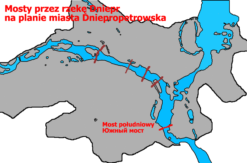 South bridge in Dnipropetrovsk in Ukraine